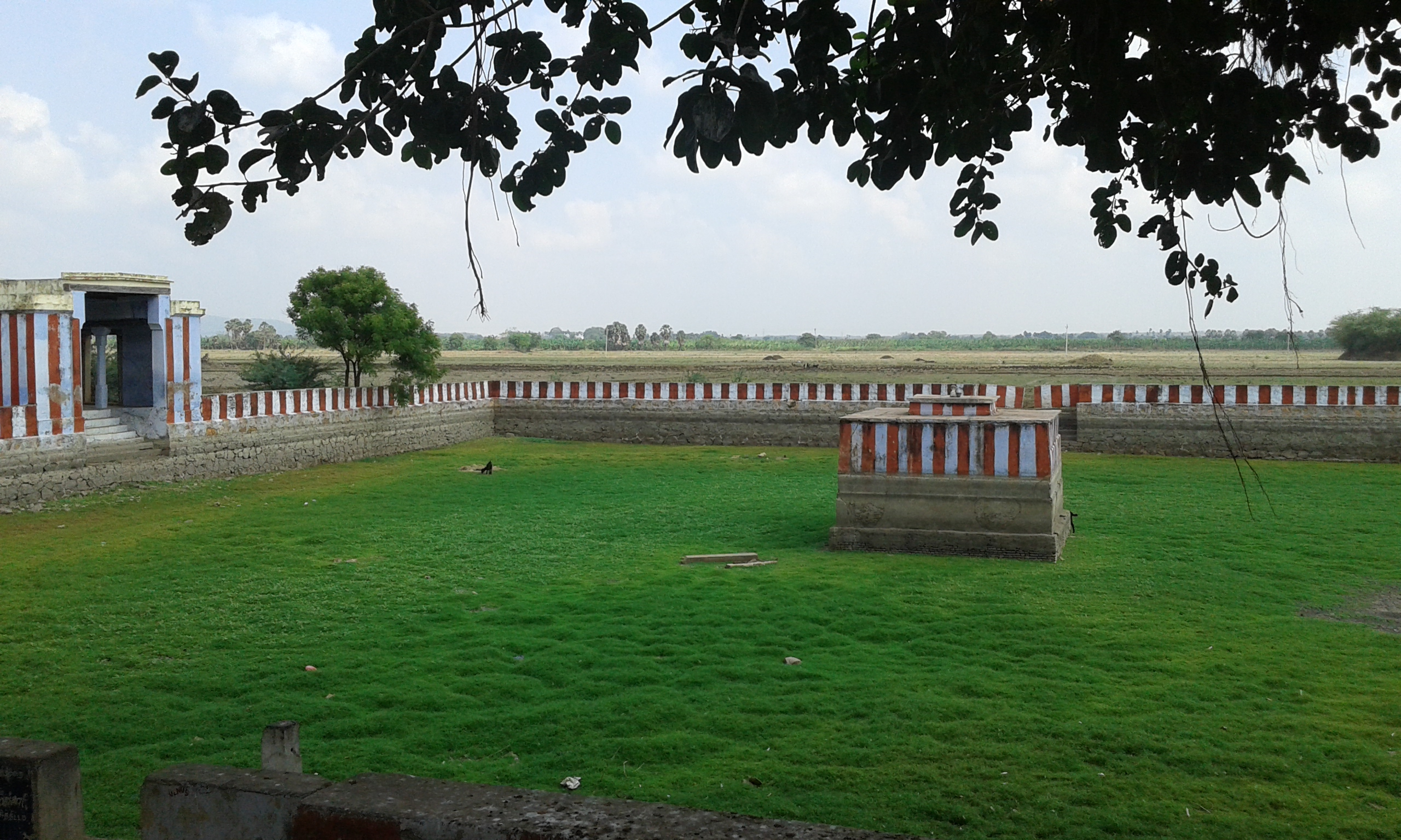 Thirupuliyangudi